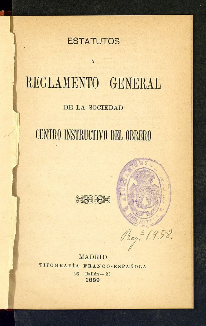 Title pages of the "Sociedad del Centro Instructivo del Obrero" in Madrid